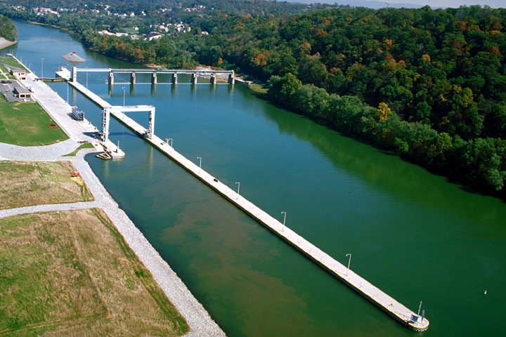 Aerial view of the Point Marion Lock and Dam on the Monongahela River.